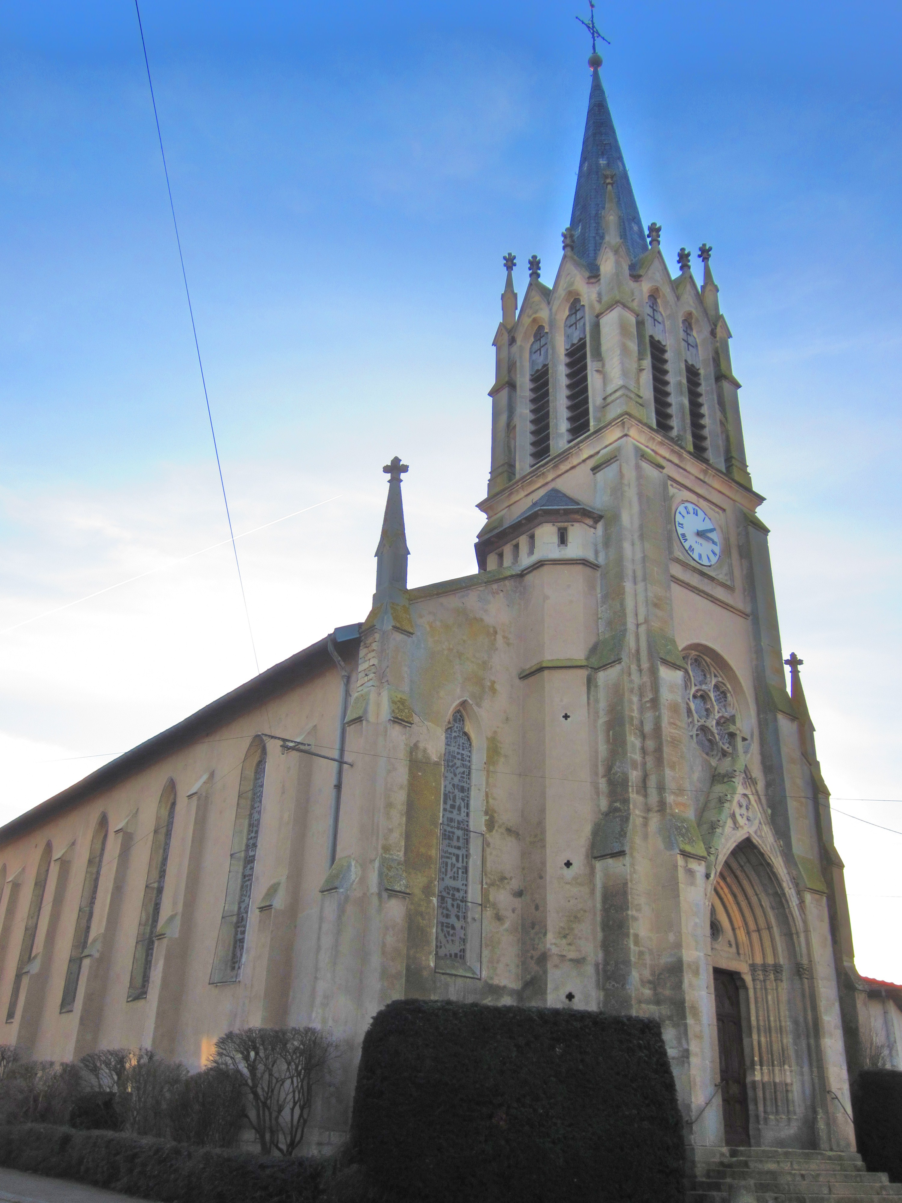 Armaucourt church